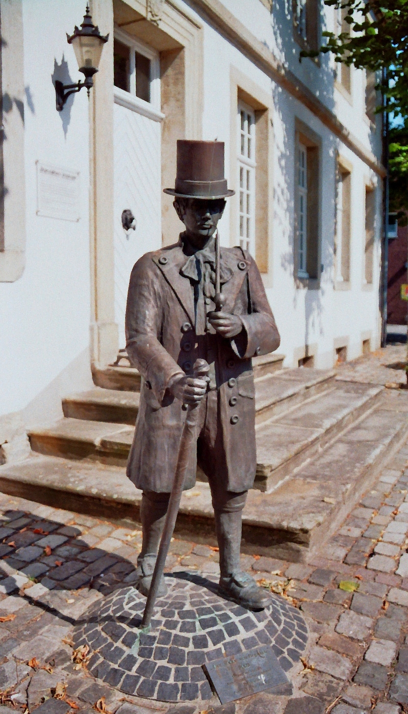 Bronze statue Der Tödde von Hopsten (The Merchant of Hopsten), a work of Janischowsky & Partner (2003), at BürgerHaus Veerkamp in Hopsten, Kreis Steinfurt, North Rhine-Westphalia, Germany.